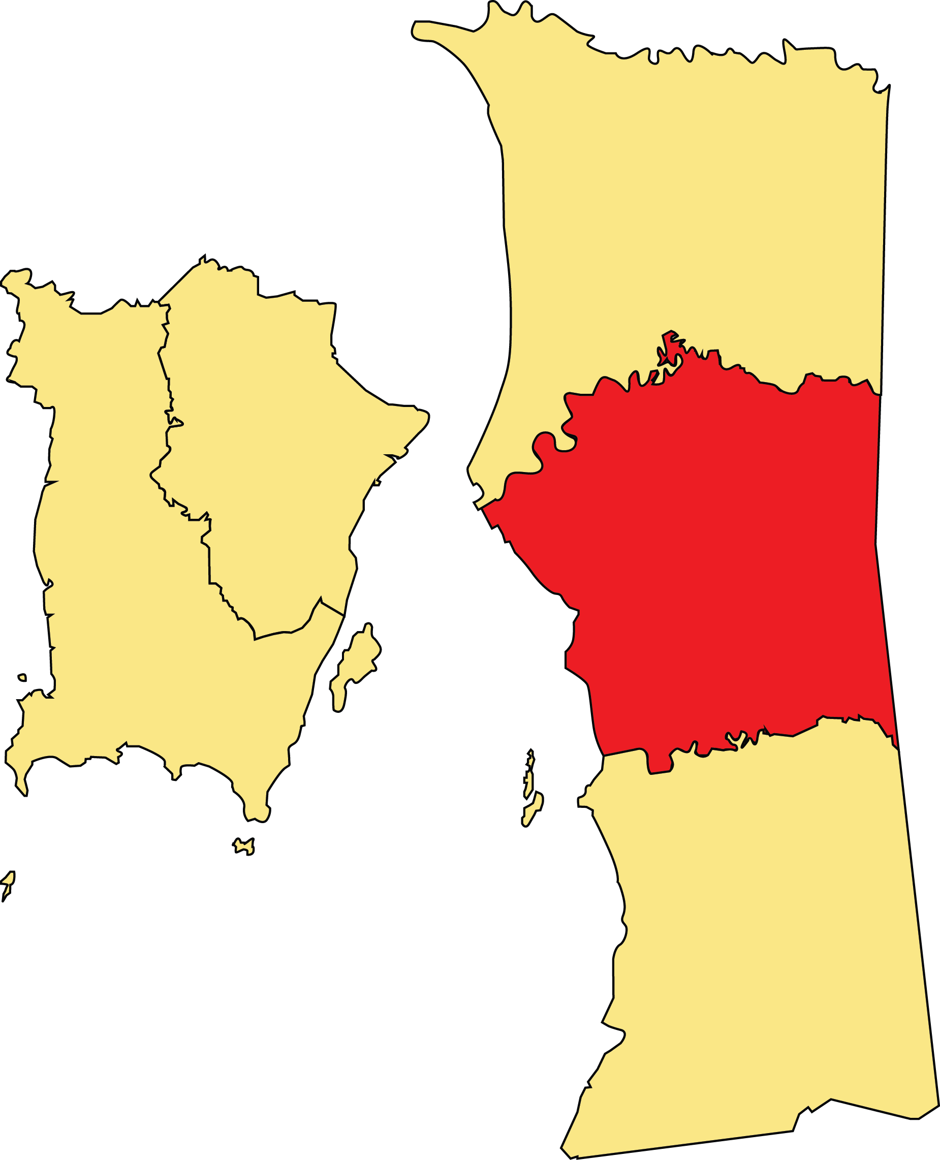 Location of Central Seberang Perai District within the state of Penang, Malaysia.